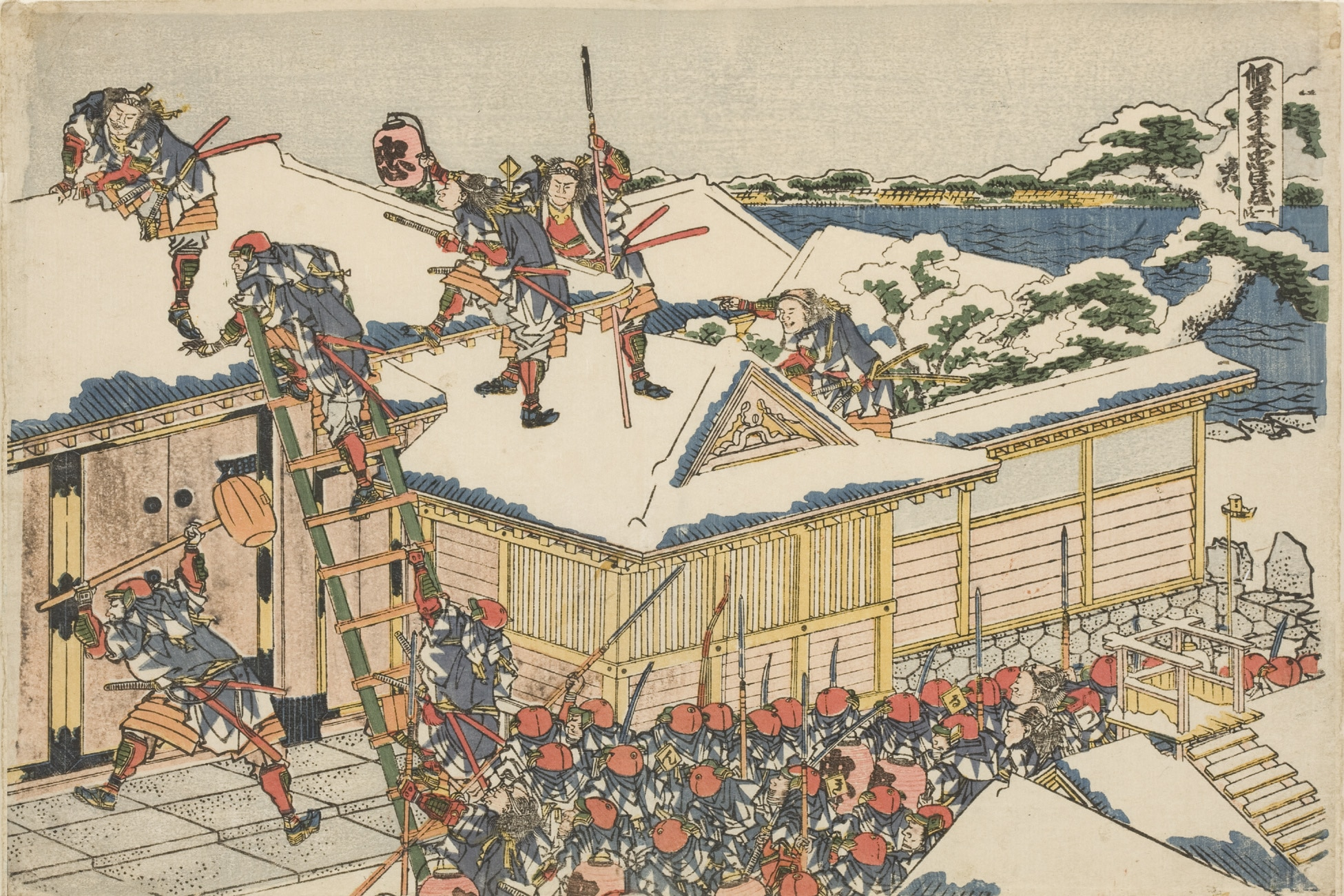 The ronin attack the principal gate of Kira's mansion; the mallet is wielded by one of the younger ronin, Ohotaka Genjo - Chushingura, Act XI, Scene 2 - Hokusai.